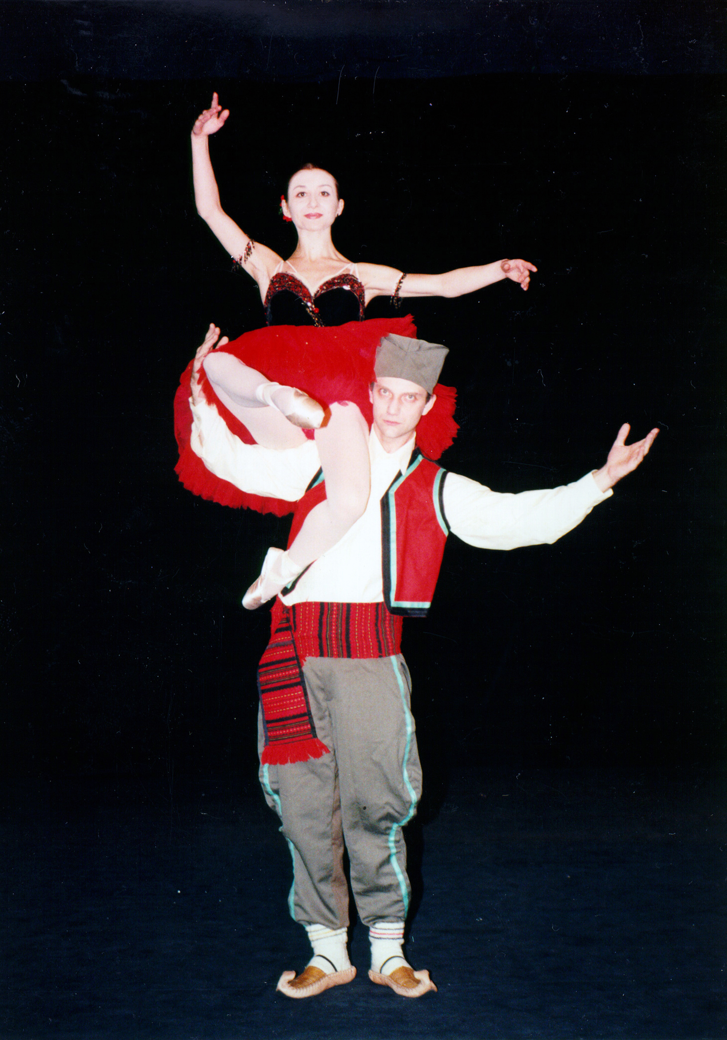 From mime play "Heaven awaiting" - Dalija Imanić and Marko Stojanović